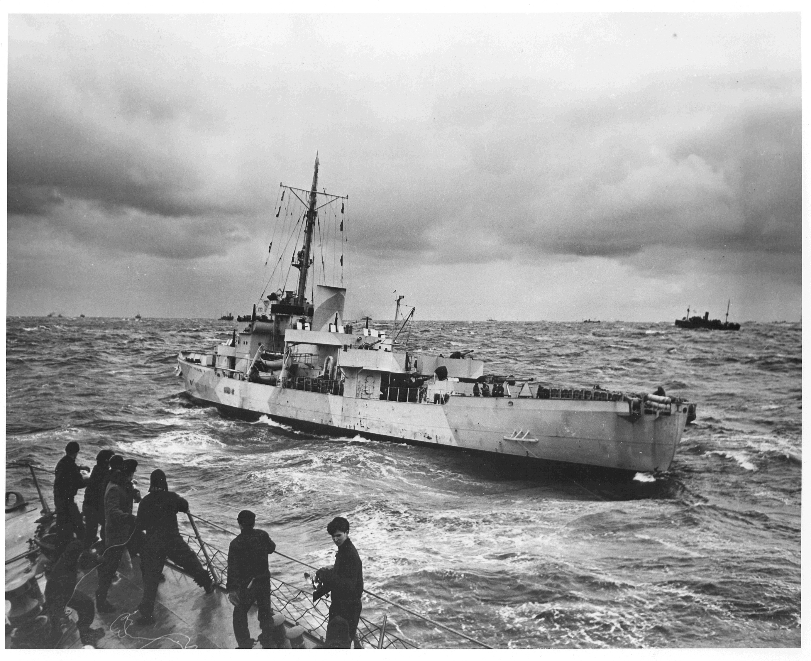 United States Coast Guard Cutter Spencer (WPG-36) during WWII in 1942 or 1943. Spencer sank the German submarine U-175 on April 17, 1943.